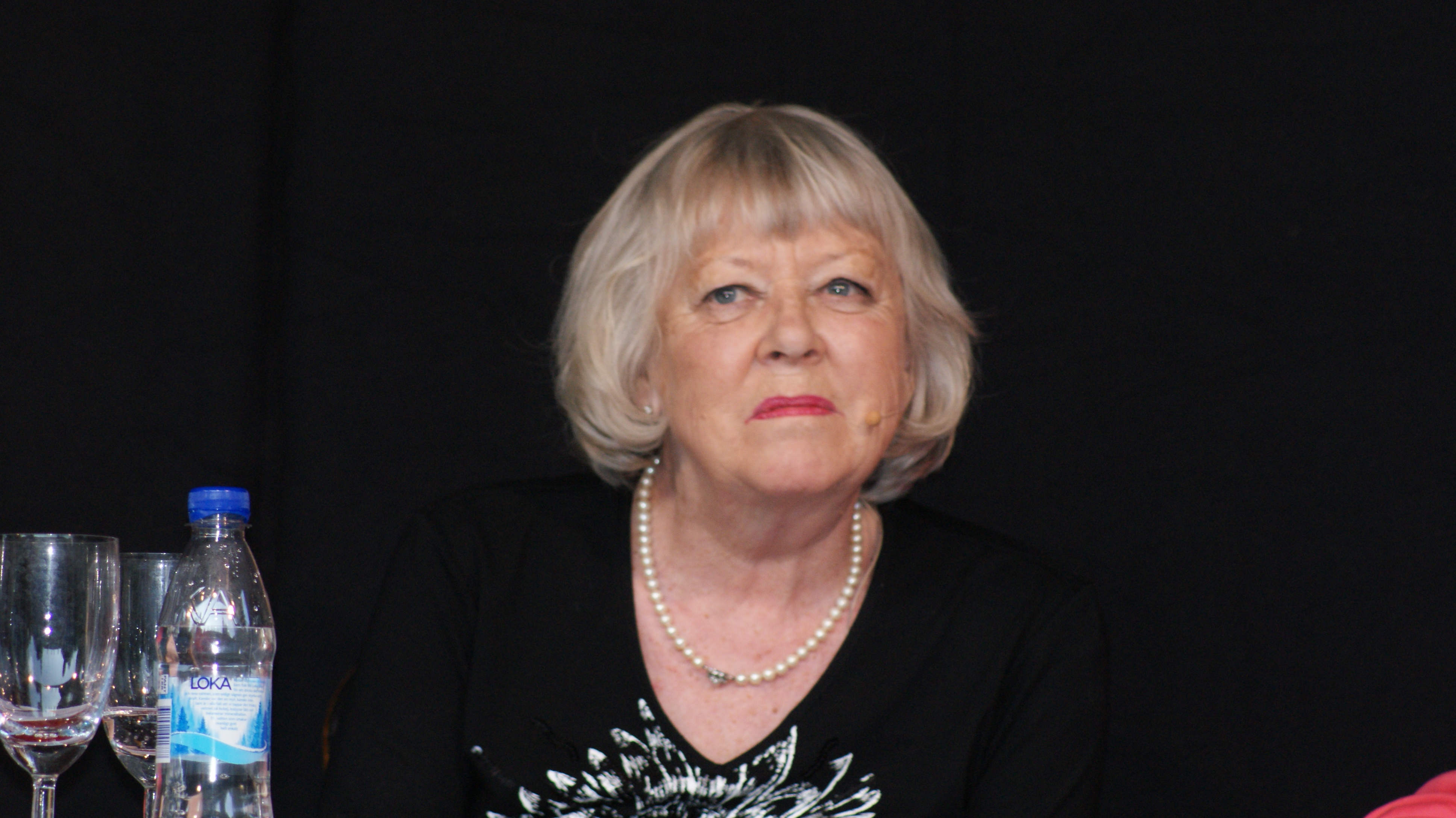 Gunilla Åkesson, Swedish actress. Photo taken by A-B N.